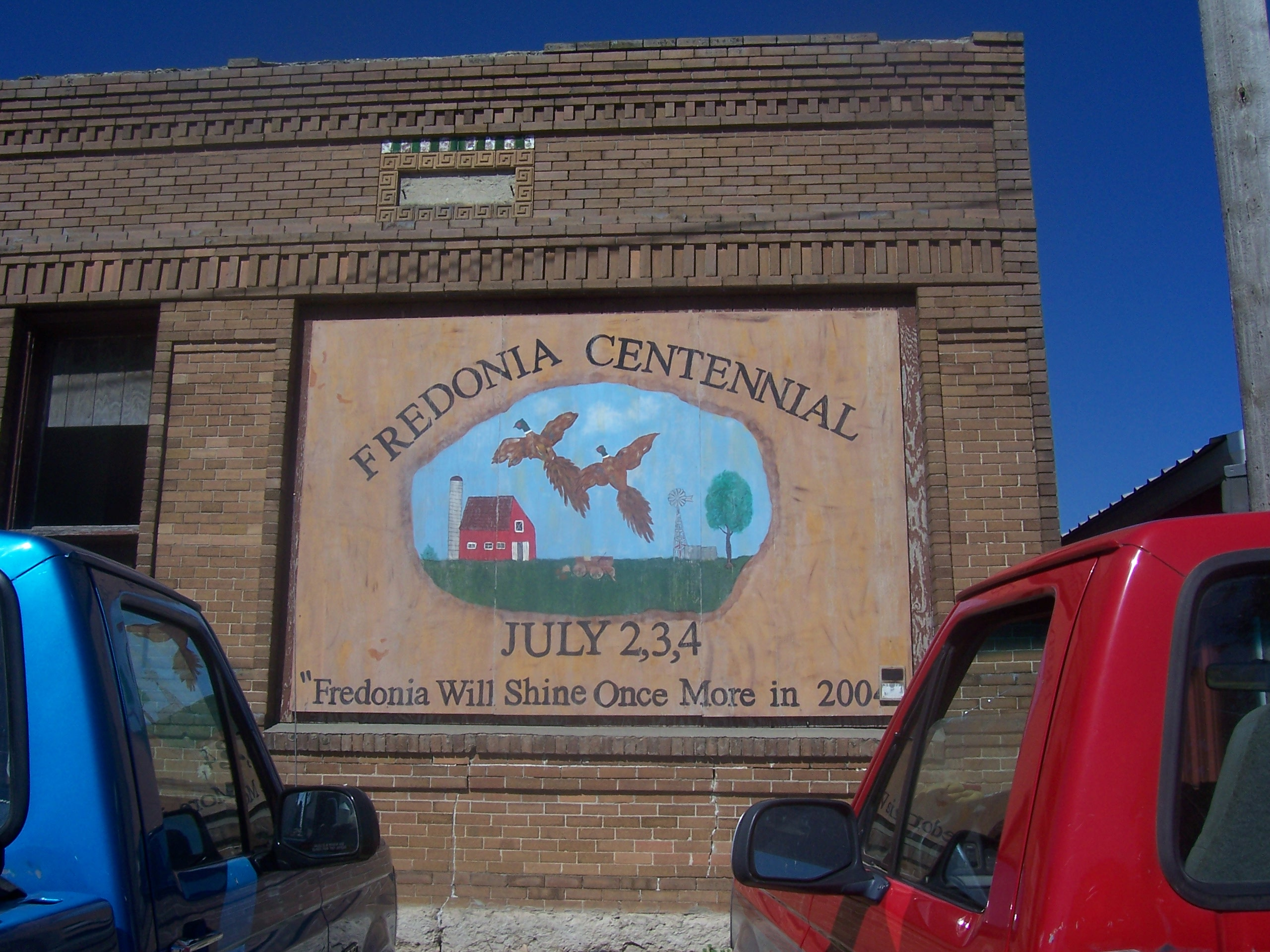 The centennial sign of Fredonia, ND, population 51.